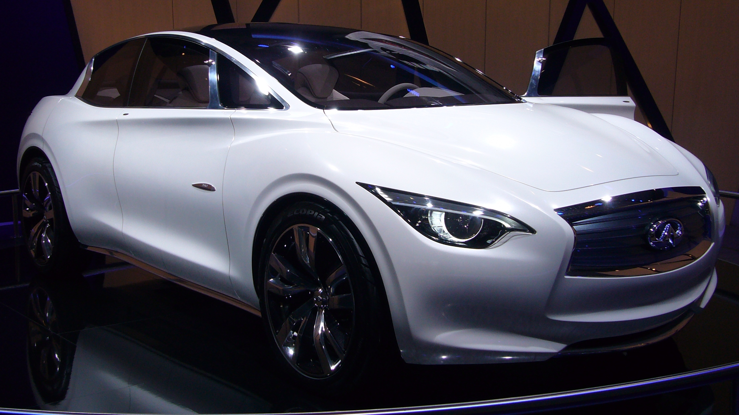 Infiniti Etherea Concept at IAA Frankfurt 2011